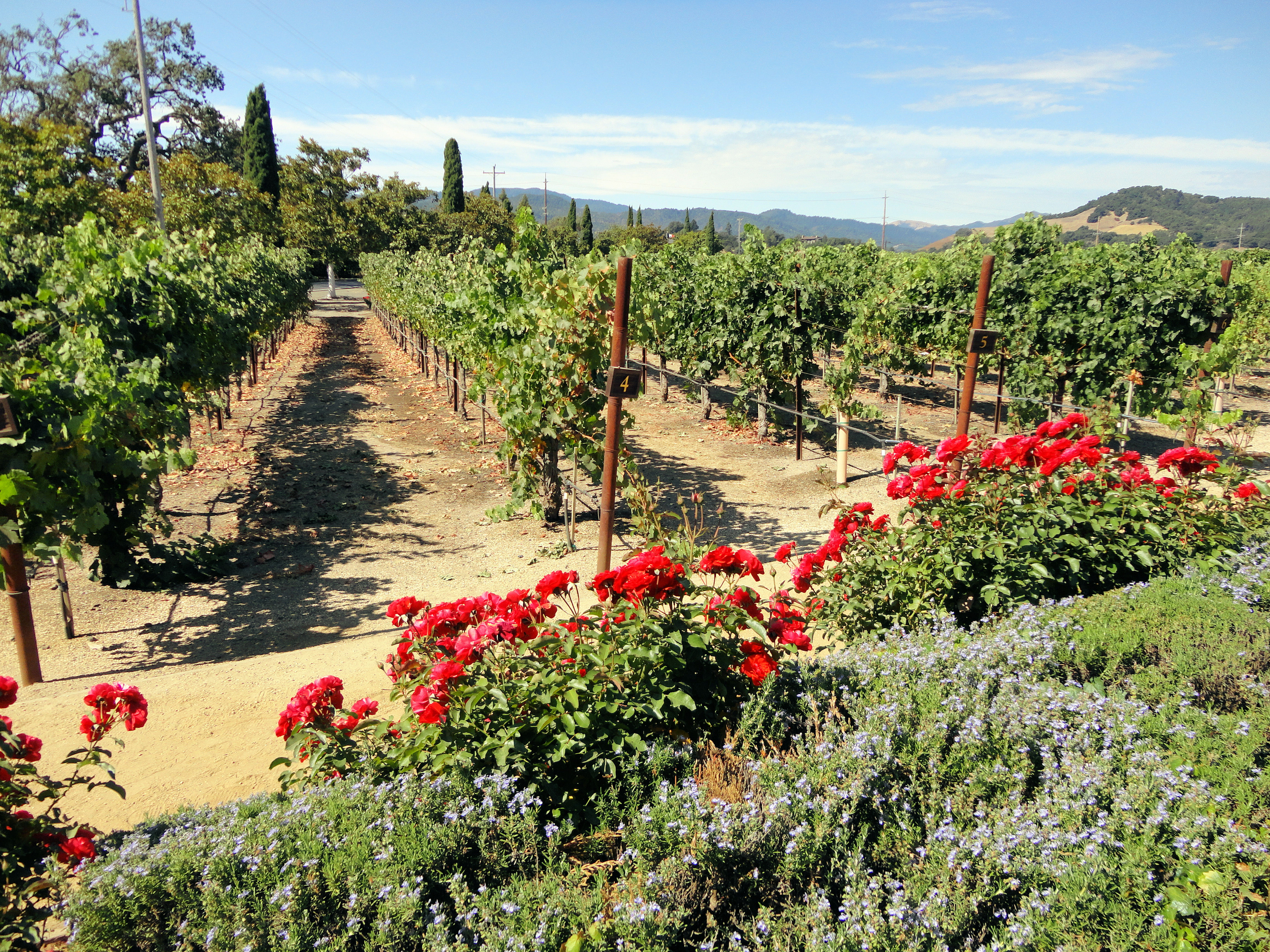 Clos du Val Winery, Napa Valley, California, USA Experience Clos Du Val’s 35 year tradition of producing classic, estate-style wines of balance, complexity and elegance. Visit Clos Du Val in the Stags Leap District of Napa Valley, California. About Clos Du Val In 1970, American businessman John Goelet sent French-born winemaker Bernard Portet off with a passport and a mission to find new territory with the potential to produce world-class wines. Two years and five continents later, Portet landed in California. Portet got a sense of Napa Valley’s microclimates by driving through the area with his arm out the car window. Struck by the cool evenings and idyllic terrain of the then-undiscovered Stags Leap District, he proposed the area to Goelet. Convinced, Goelet acquired 150 acres of land and founded Clos Du Val, a “small estate of a small valley,” in 1972. Soon thereafter Clos Du Val became one of the first wineries to stake a claim on some of the finest hillside land in the cool-climate region of Carneros, purchasing 180 acres in 1973. Portet’s old-world approach to winemaking combined with Napa Valley fruit established Clos Du Val’s tradition of classic estate-style wines of balance, elegance and complexity. The first vintage of Cabernet Sauvignon in 1972 was one of only six California Cabernets selected for the now-legendary 1976 Paris Tasting. That same vintage took first place in a rematch 10 years later, proving that Clos Du Val wines age with grace. Today co-founder and vice chairman Bernard Portet is joined by vice president of vineyards and winery operations John Clews. The two make blending decisions as a team and share a passion for creating wines that complement a meal and have the proven ability to age for many years. Clos Du Val's elegant wines illustrate that a classic is always in style.